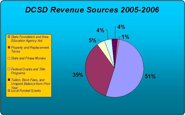 Dubuque (Iowa) Community School District Revenue Sources 2005-2006